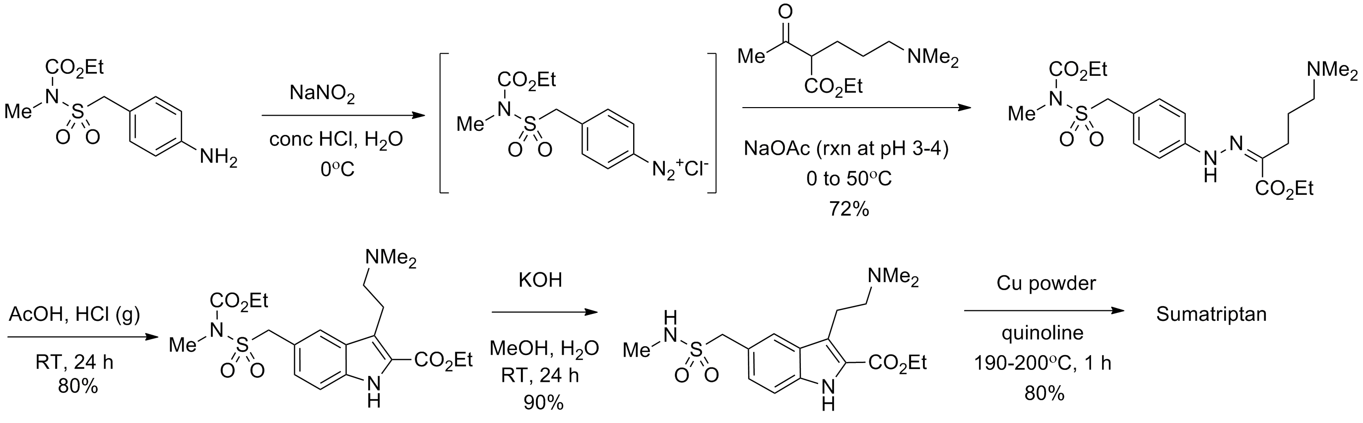 A group from Hungary has synthesized sumatnptan utilizing a Japp-Klingemann reaction/decarboxylation strategy. Pete, B.; Bitter, I.; Harsanyi, K.; Toke, L. Heterocycles, 2000,53,665-673.